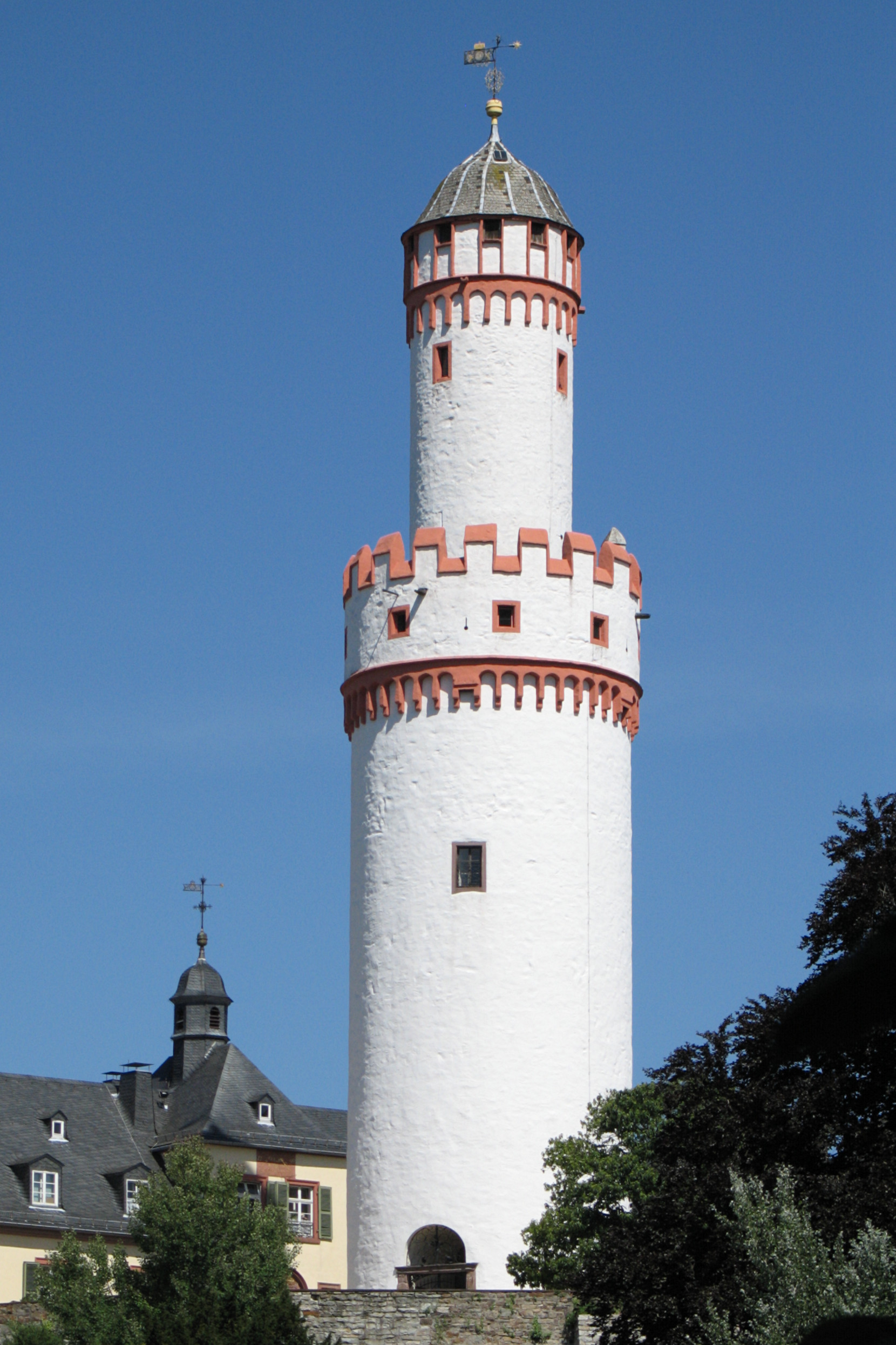 The "White Tower", a landmark of Bad Homburg vor der Höhe, Germany.